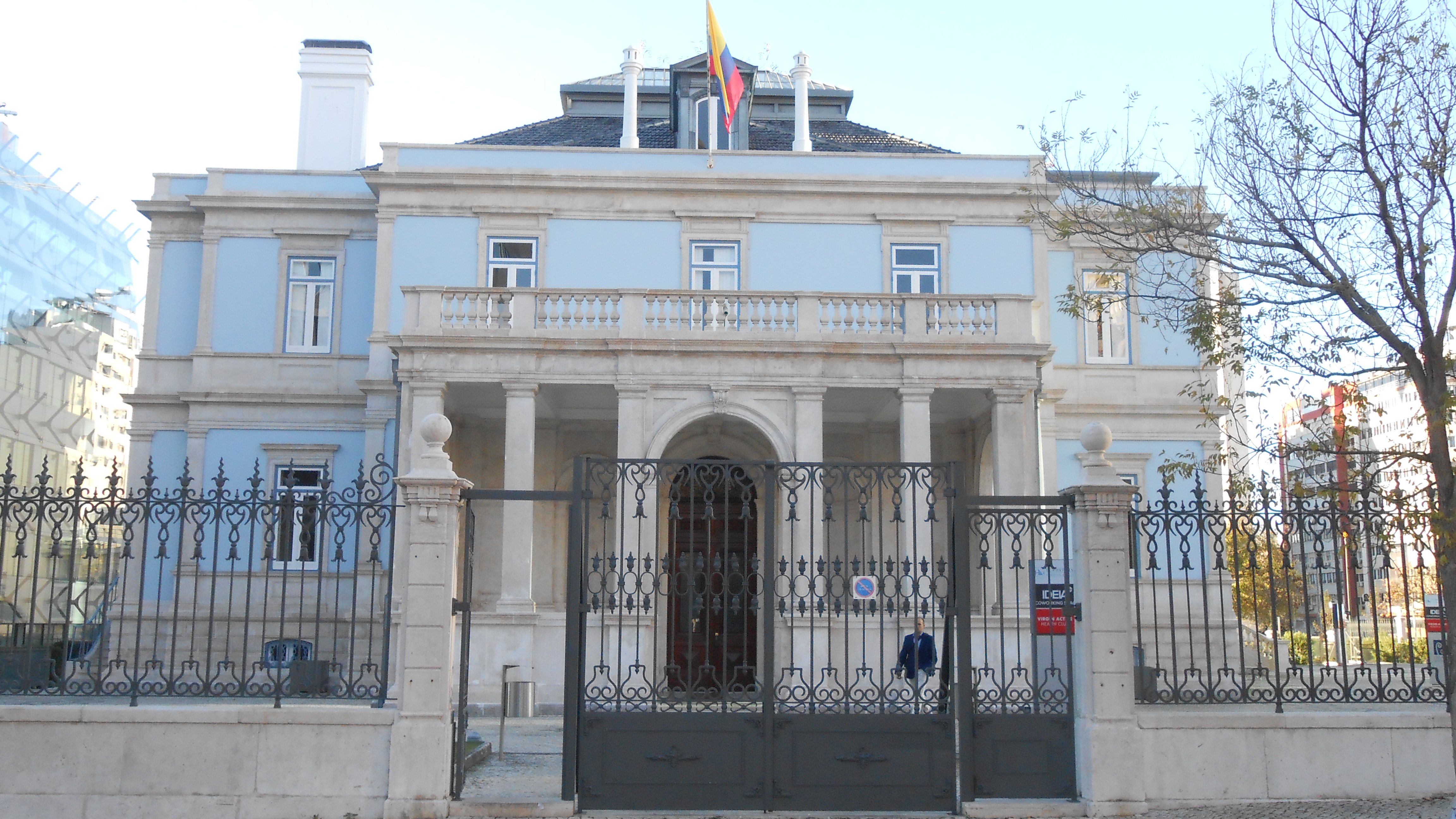 The embassy of Colombia in the Avenida Fontes Pereira de Melo in central Lisbon.